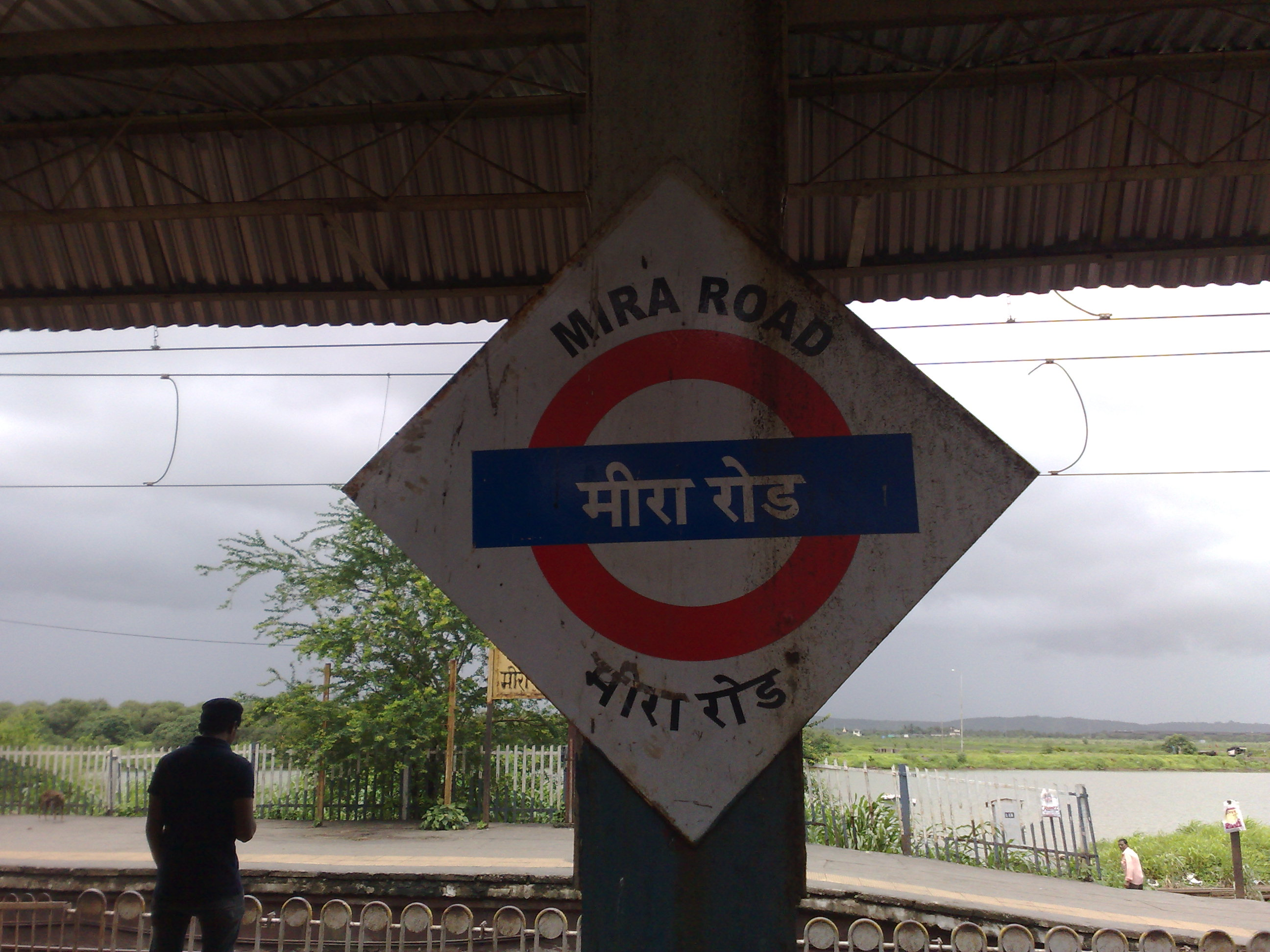 Mira Road platformboard